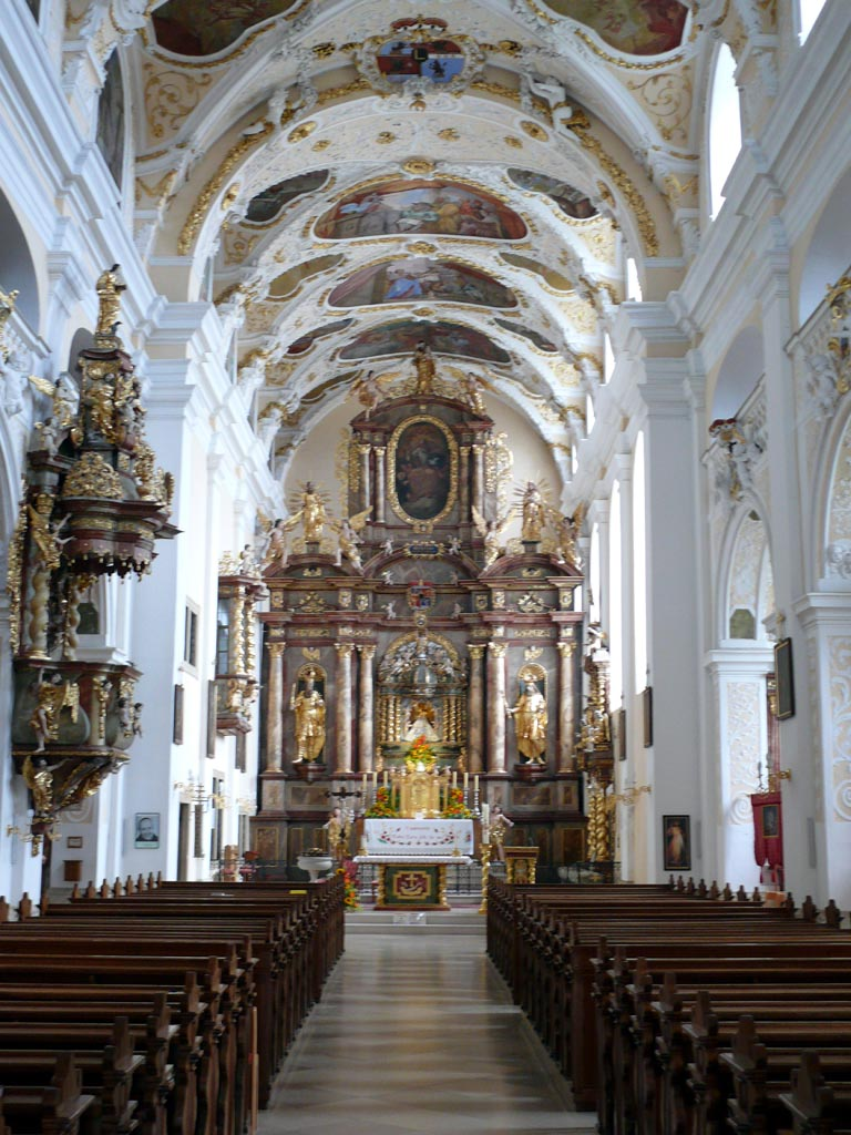 Frauenkirchen Basilica, interior